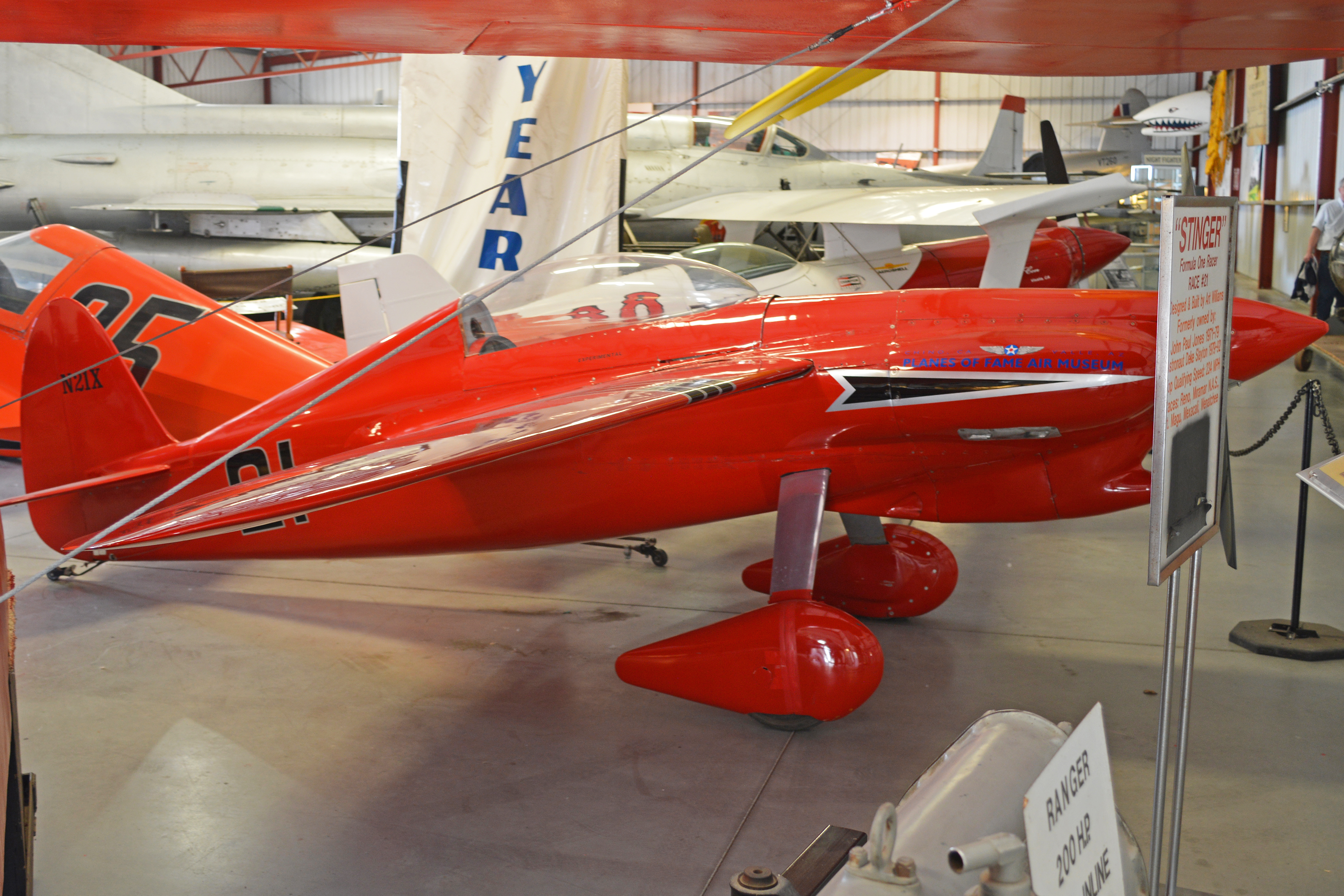 c/n 1. Built 1971 for Formula One air racing. Competed in the 1973 Reno Air Races and finished in 2nd place. On display in the ‘Jet & Air Racers’ hangar at the Planes of Fame Museum, Chino, California, USA. 28-2-2016